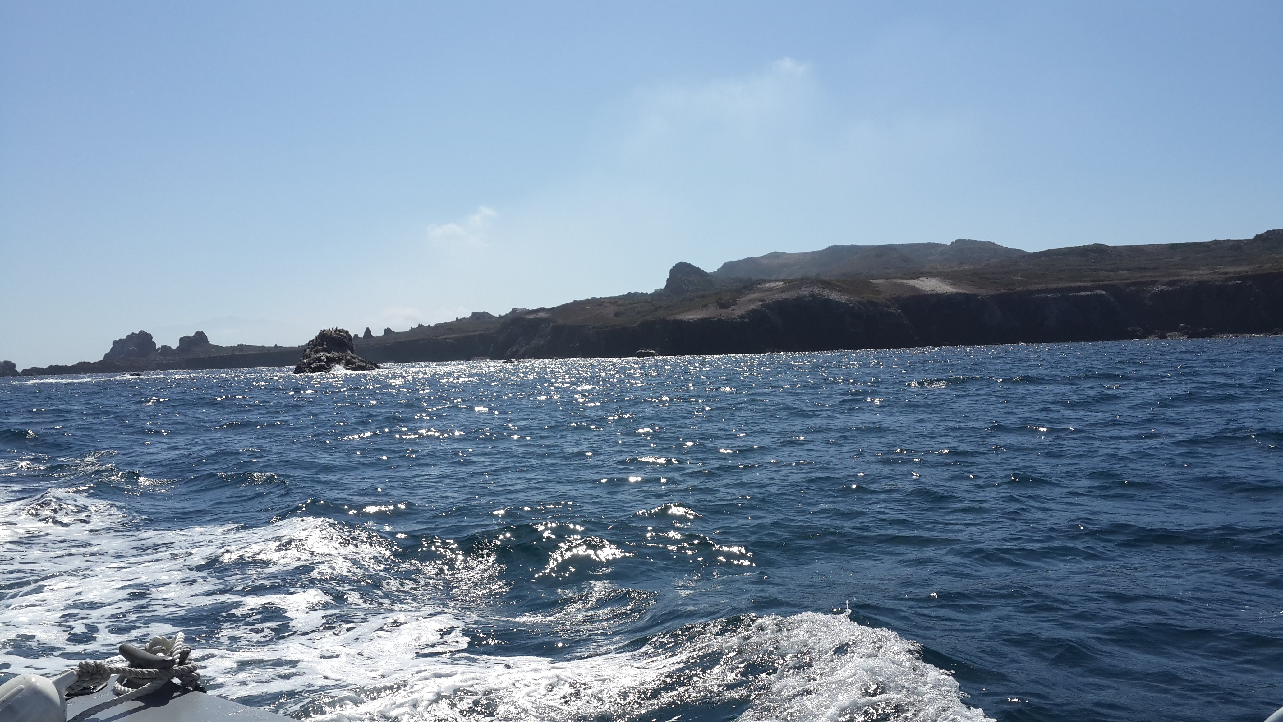 A photo of Todos Santos island from a boat